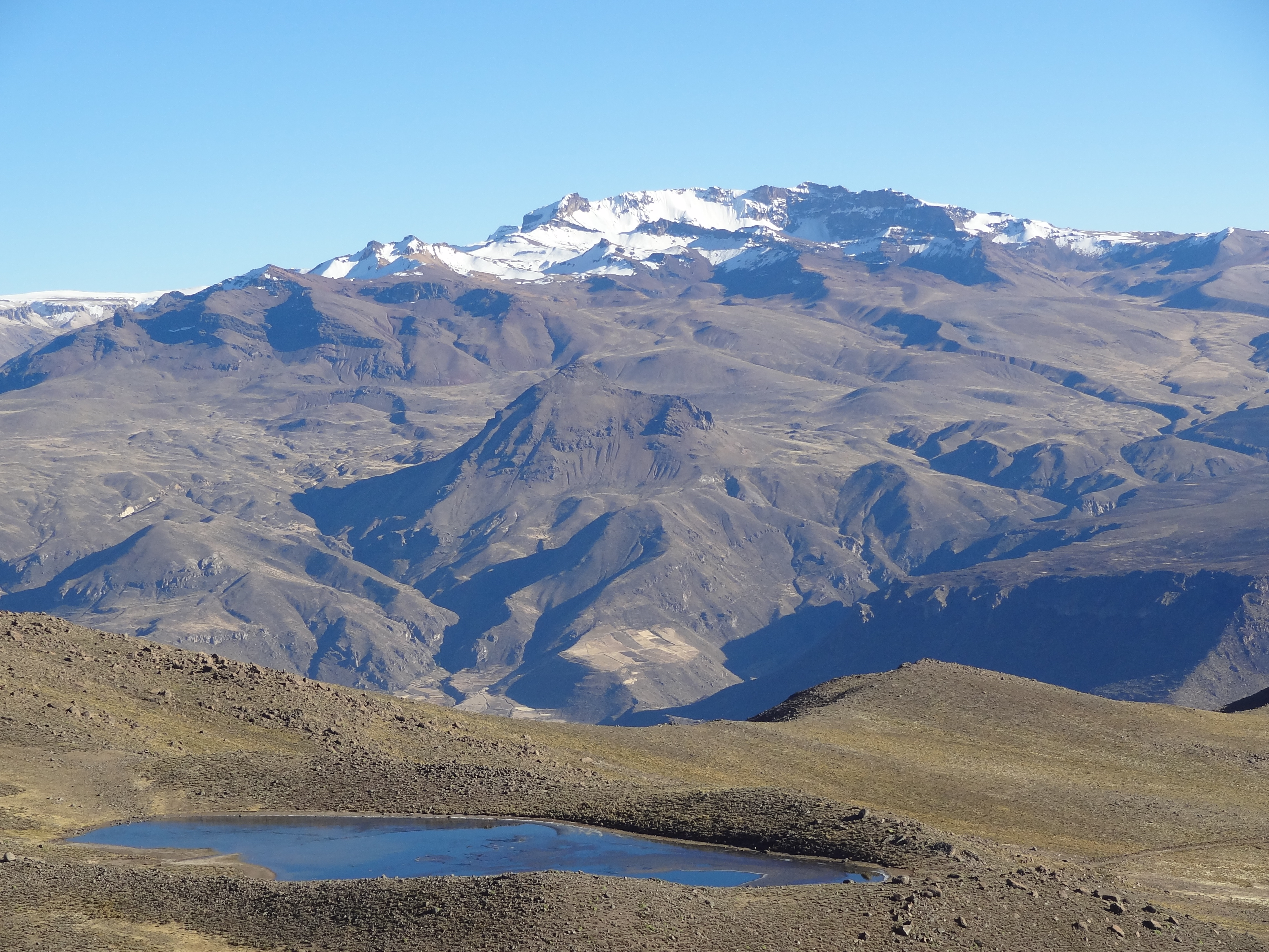 Nevado Mismi from the southeast (in the foreground, the village of Coporaque and Lake Lima Cota)